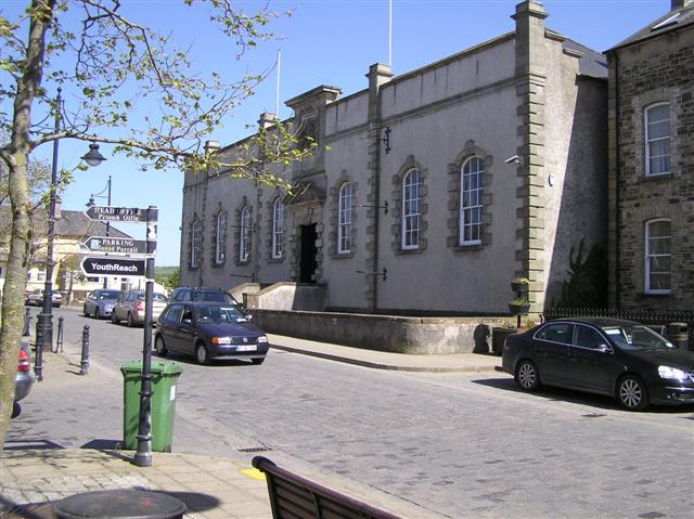 Lifford Courthouse and Jail The building is located beside The Diamond